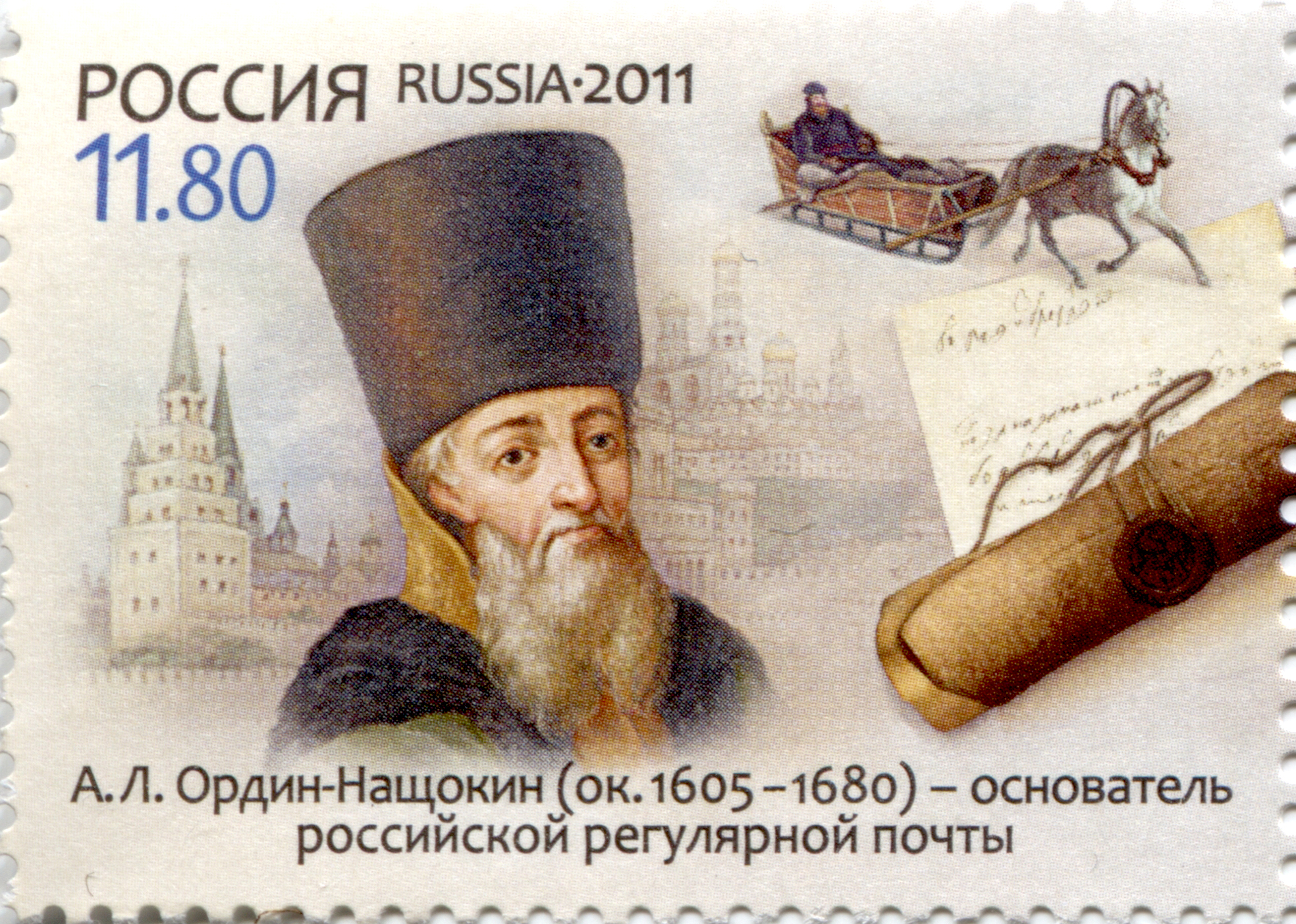 Afanasy Ordin-Nashchokin (1605-1680) – set on foot a postal system in Russia. Moscow Postamt 300 jubilee (se-tenant). The stamp of Russia, 2011, PTC Marka Catalogue 1536.